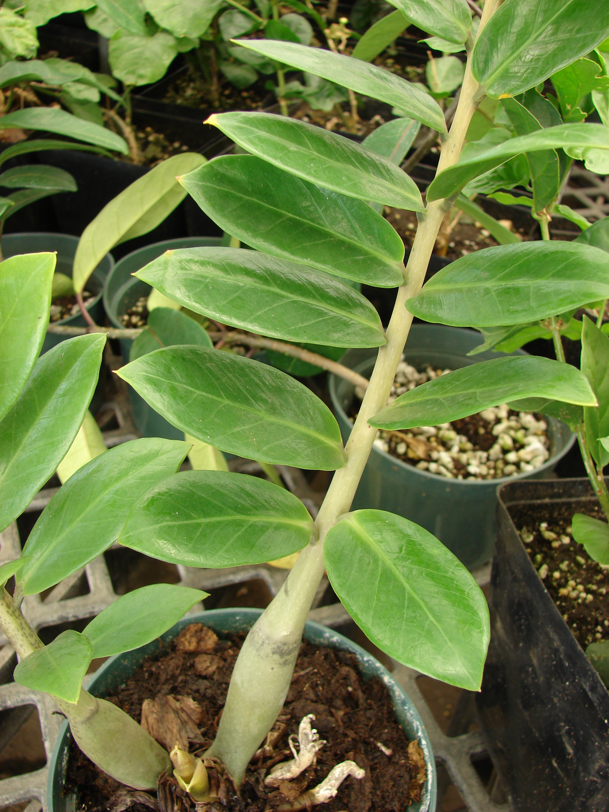 Zamioculcas zamiifolia (habit). Location: Maui, Walmart Kahului